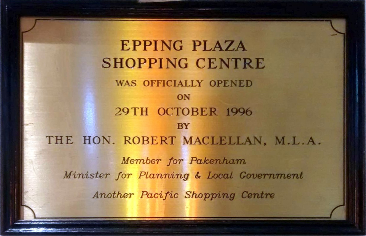 Epping Plaza / Shopping Centre / Was officially opened / on / 29th October 1996 / by / The Hon. Robert MaClellan, M.L.A / Member for Pakenham / Minister for Planning & Local Government / Another Pacific Shopping Centre